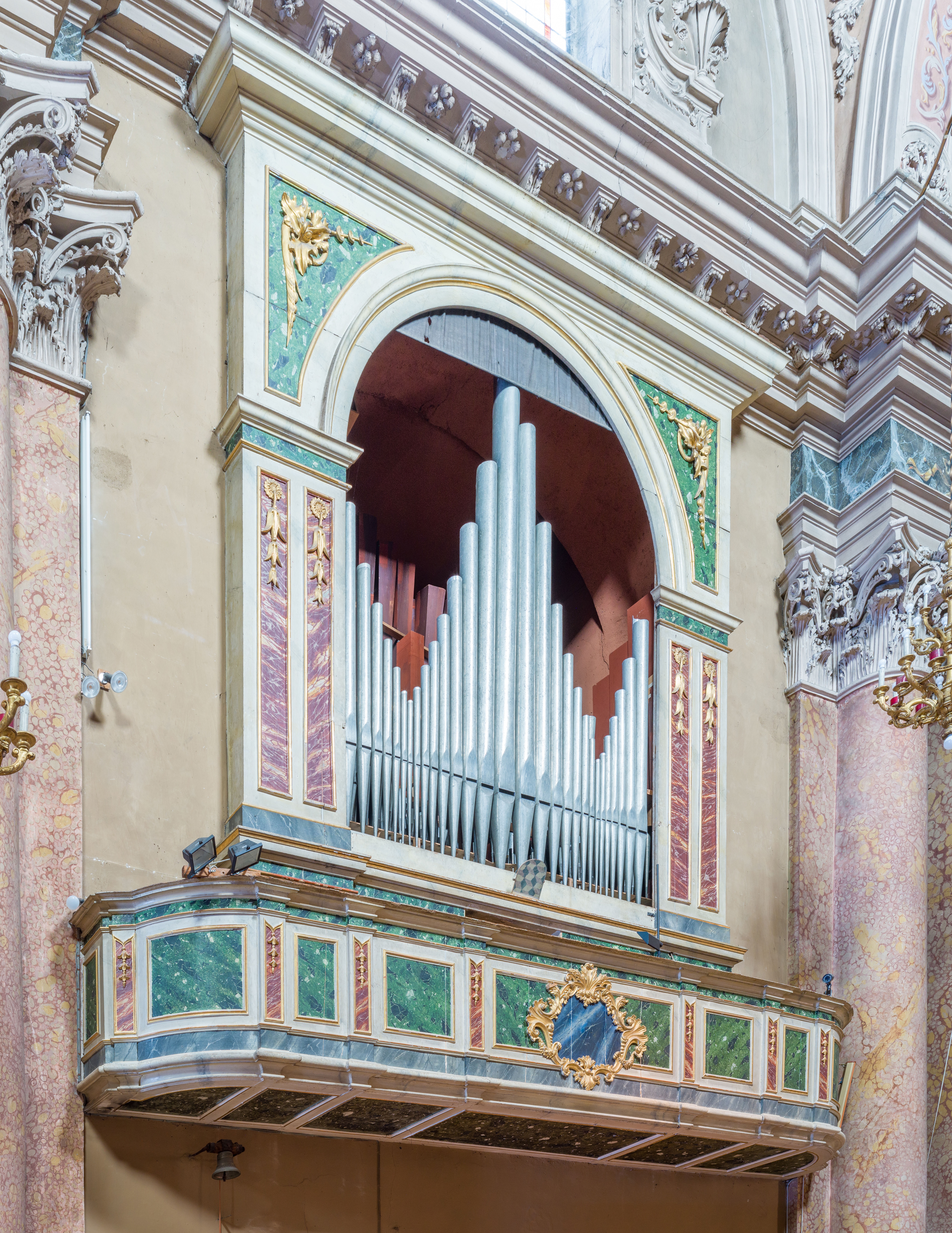 Pipe organ by Francesco Marchesini 1848 in the Santa Maria Assunta church in Solarolo , Manerba del Garda.